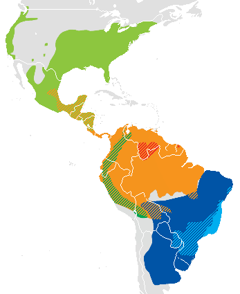 Base map derived from BlankMap-World.png. Diversity of Didelphis, "Large American Opossums". Containing the following taxa: Didelphis albiventris IUCN Didelphis aurita IUCN Didelphis imperfecta IUCN Didelphis marsupialis IUCN Didelphis pernigra IUCN Didelphis virginiana IUCN